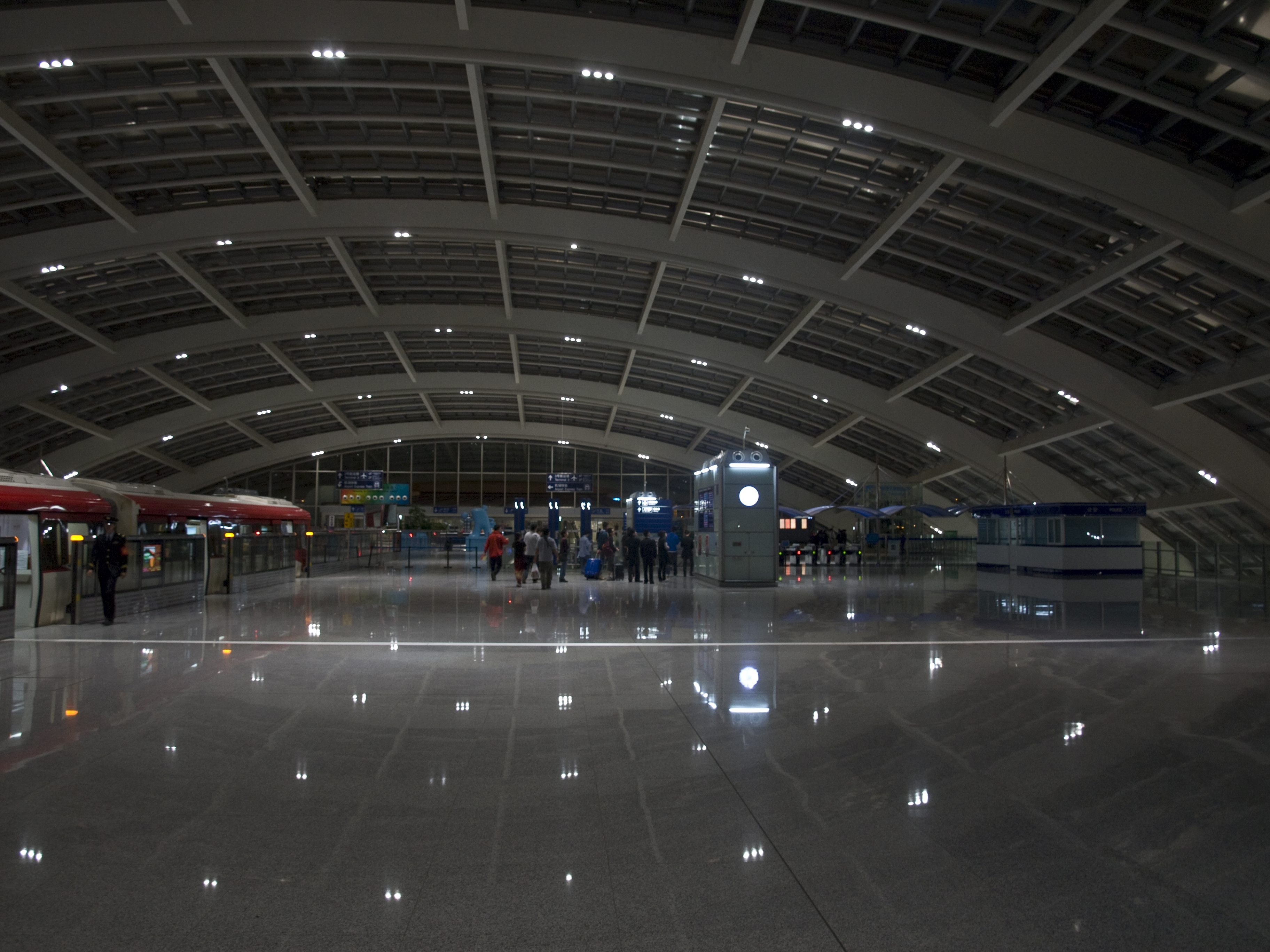 Terminal 3 station, Beijing Subway